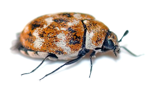 This image shows an Anthrenus verbasci - an only about 2 mm small beetle.